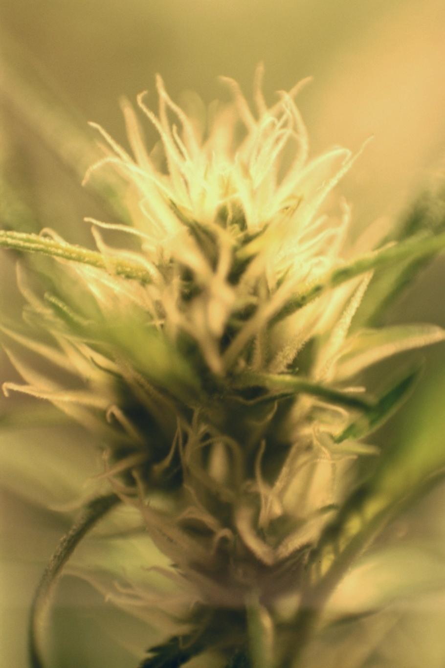 Cannabis "Northern Lights" flowering on day 28. It is growing under 400W sodiumlamp.